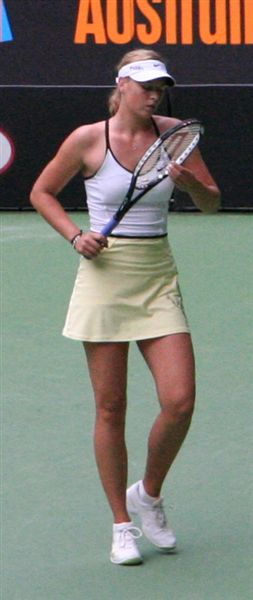 Maria Sharapova at the 2007 Australian Open.